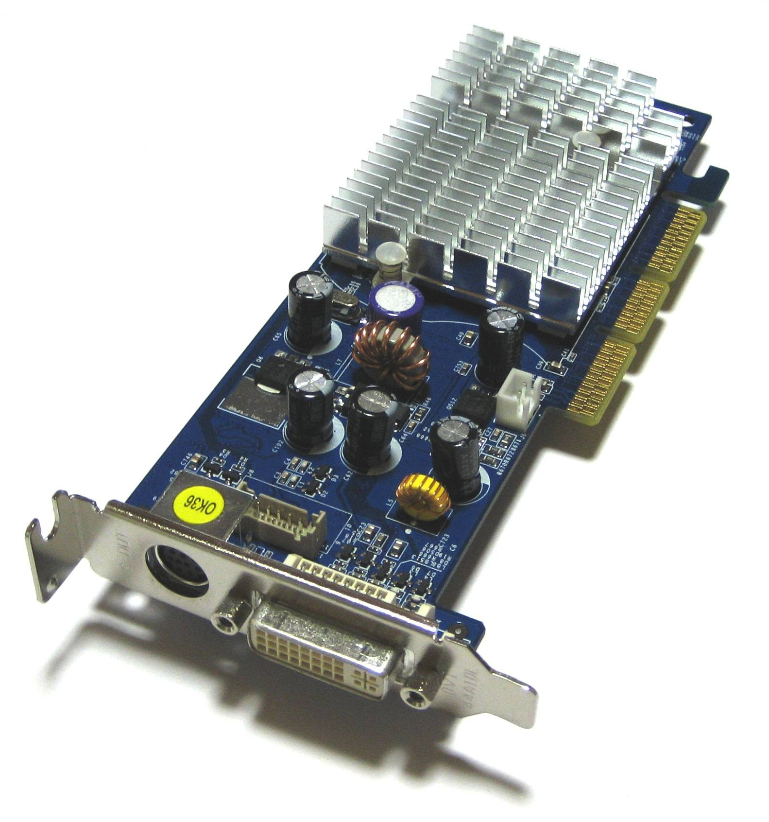 Sparkle SF-AG44DH (or SP-AG44DH) is a video card that use NVIDIA GeForce 6200. It can install in small form factor computers' low-profile AGP.